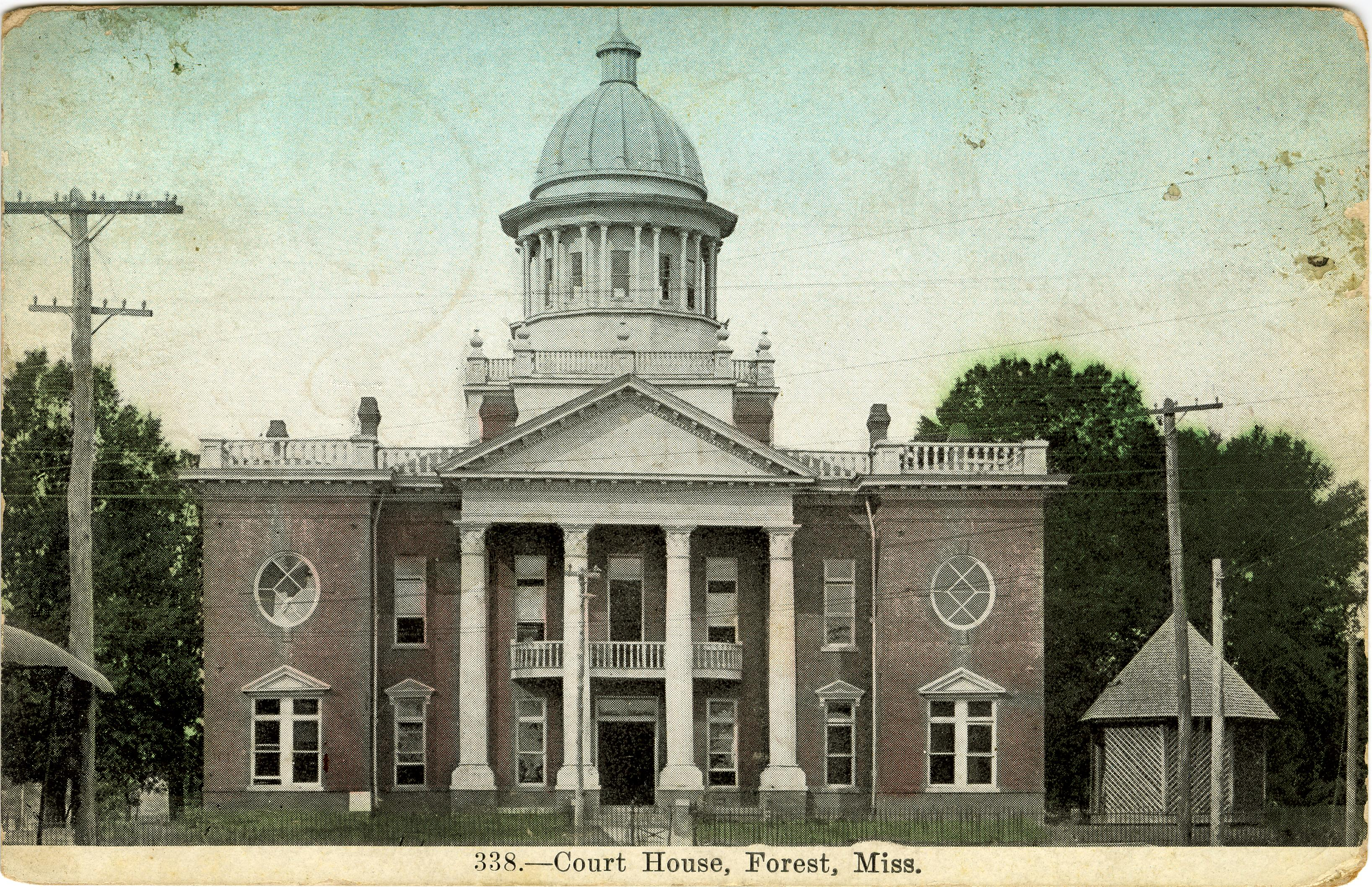 Collection: Cooper Postcard Collection Call number: PI/1992.0001 System ID: 89923. Link to the catalog Court-House, Forest, Miss. Please see our profile page for information on ordering. Scanned as tiff in 2008/09/26 by MDAH. Credit: Courtesy of the Mississippi Department of Archives and History